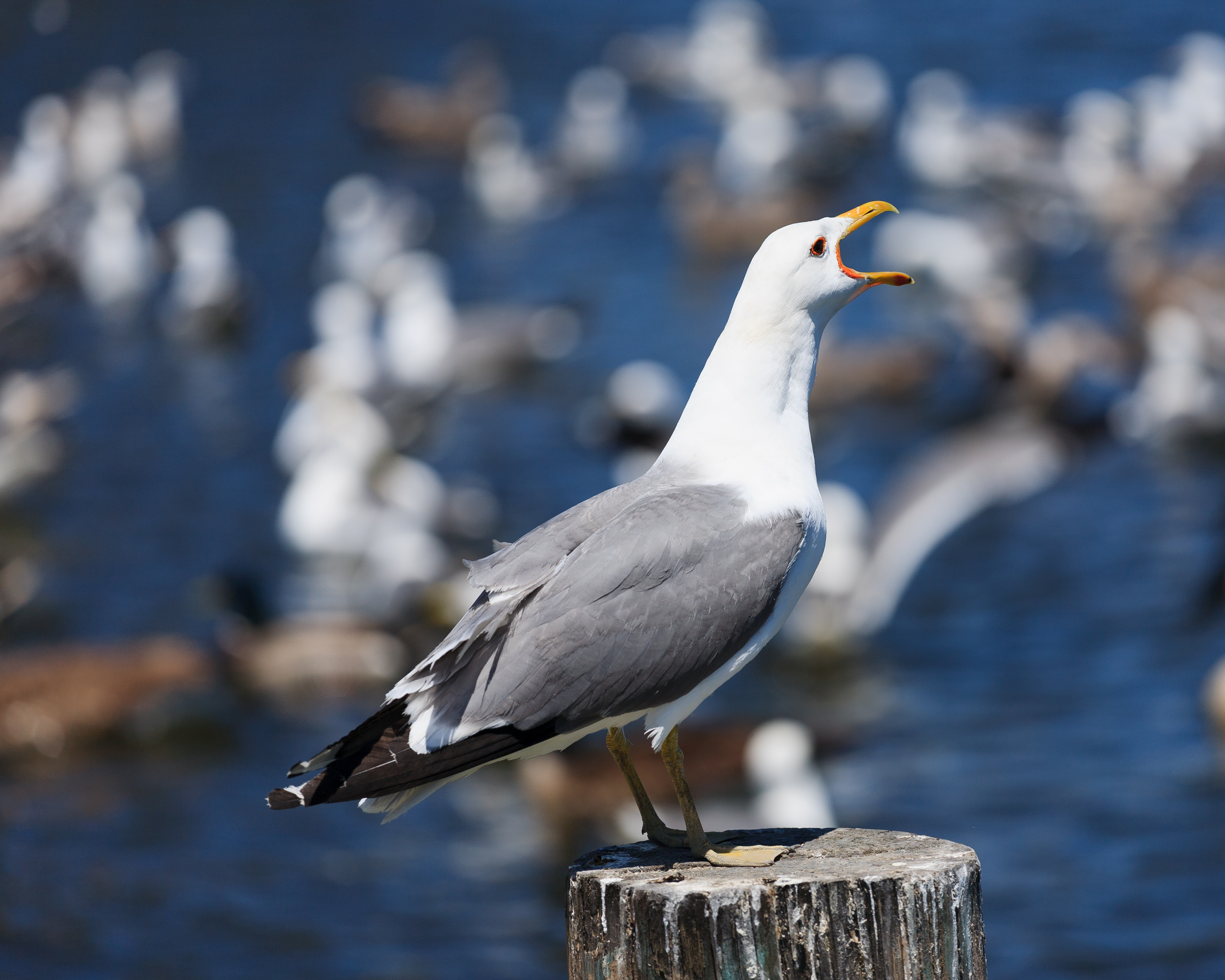 California gull calling, Palo Alto Duck Pond, Baylands Nature Preserve, Palo Alto, California.